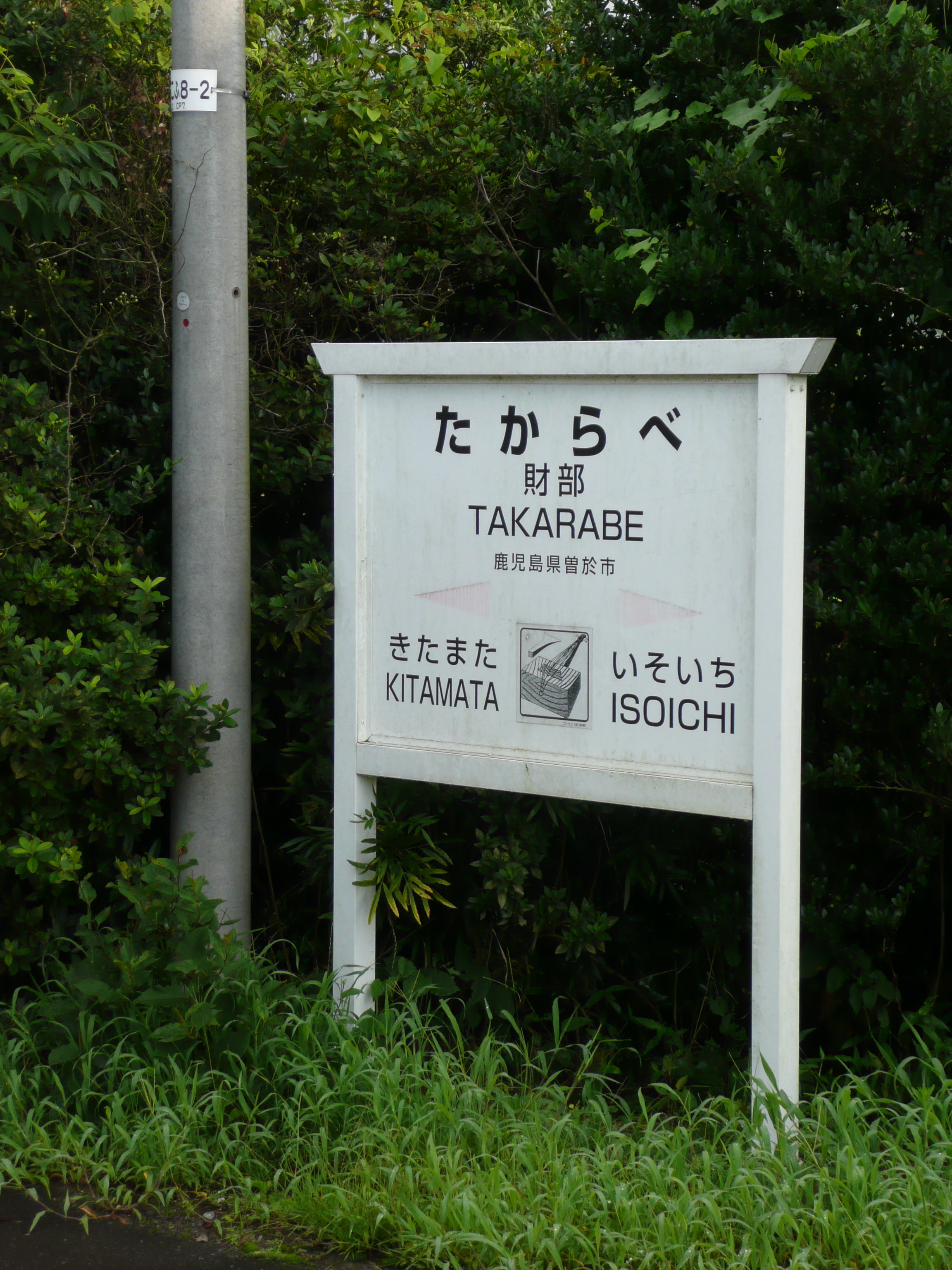 財部駅の駅名標